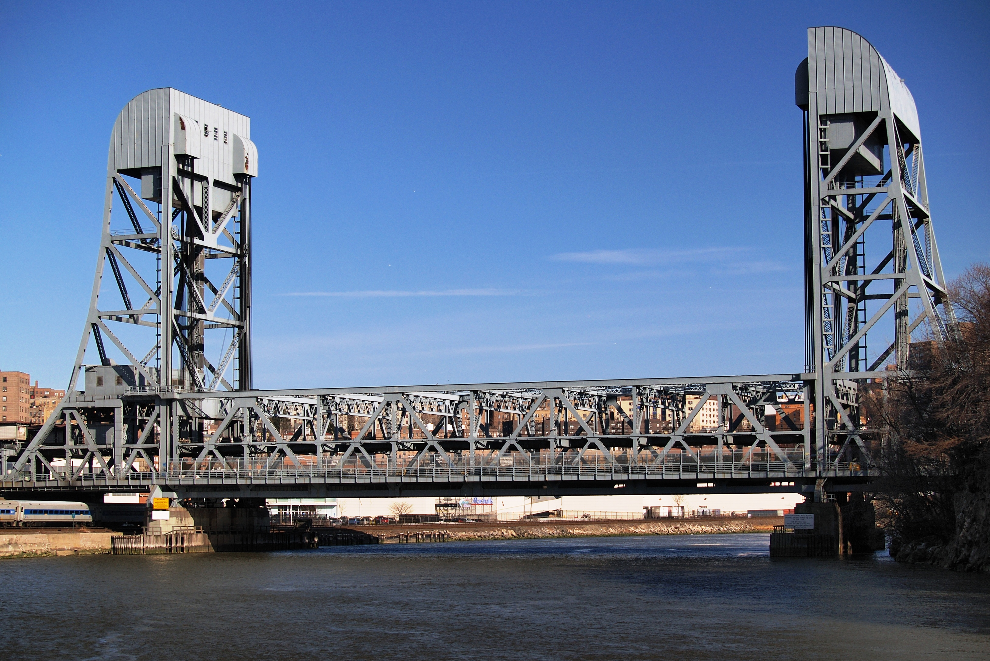 Broadway Bridge for trains connecting Manhattan and Bronx in New York City, seen from W.